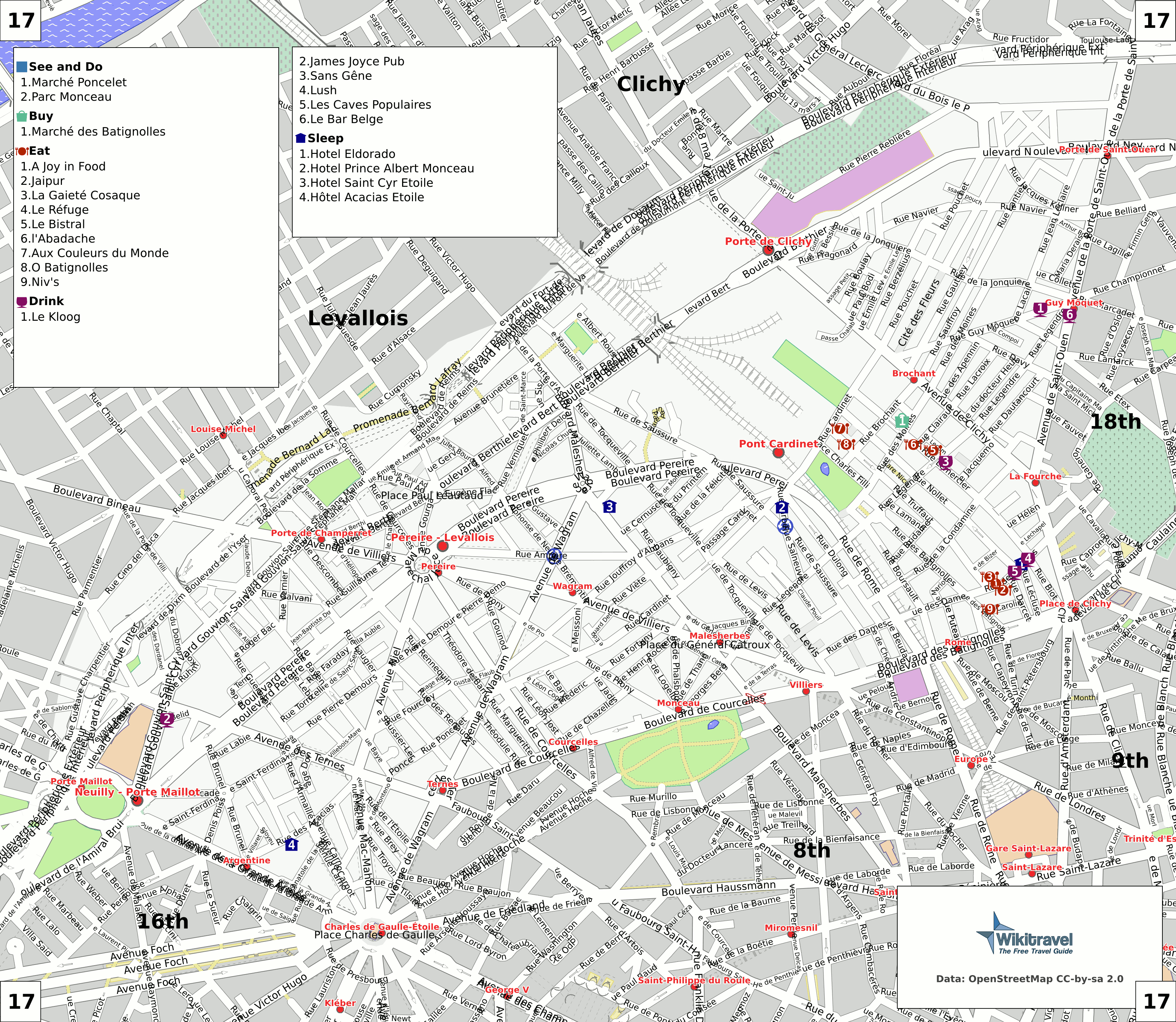 Map of the 17st arrondissement of Paris.